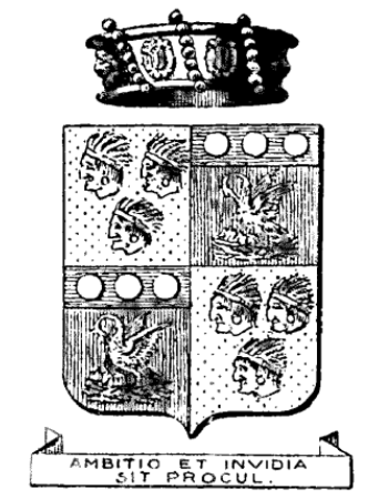 Brasão de armas dos Barões do Amparo (Manuel Gomes de Carvalho e Joaquim Gomes Leite de Carvalho)